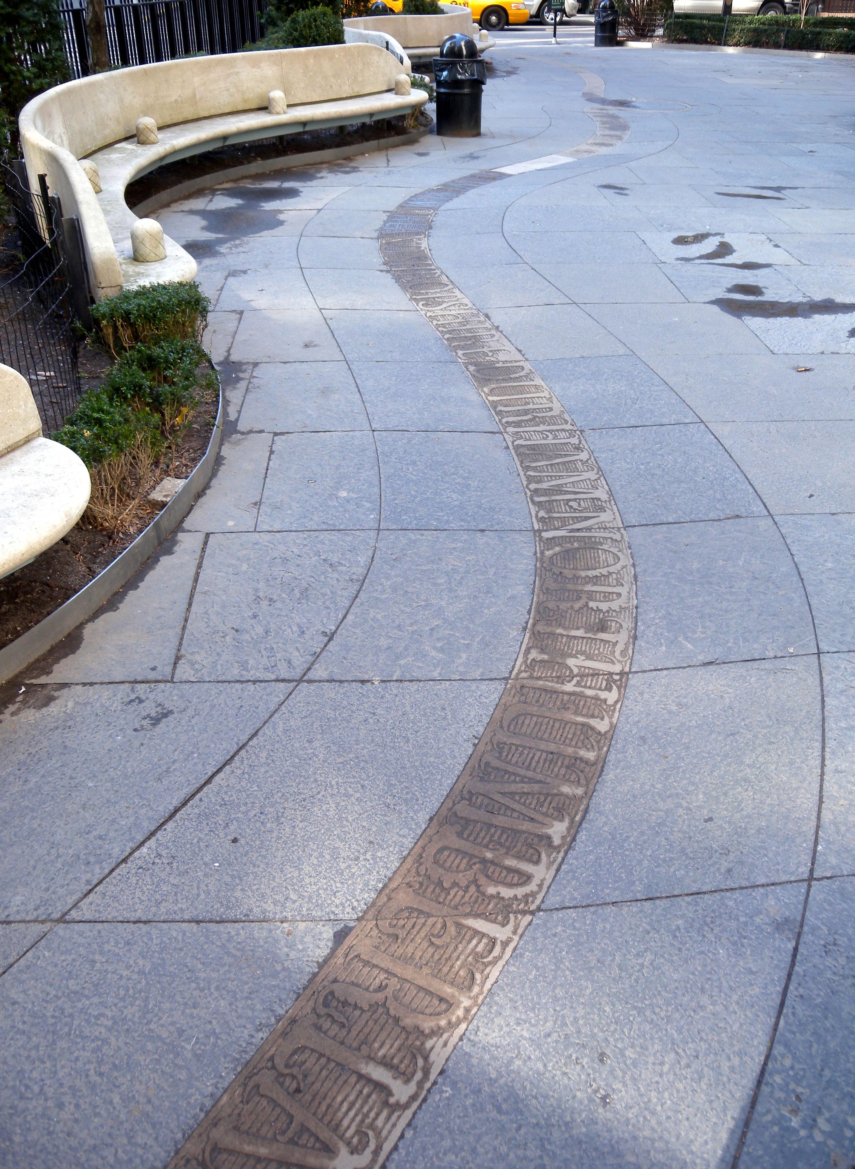 Looking south at Hanover Square inscribed with names of English Counties, on a sunny midday.